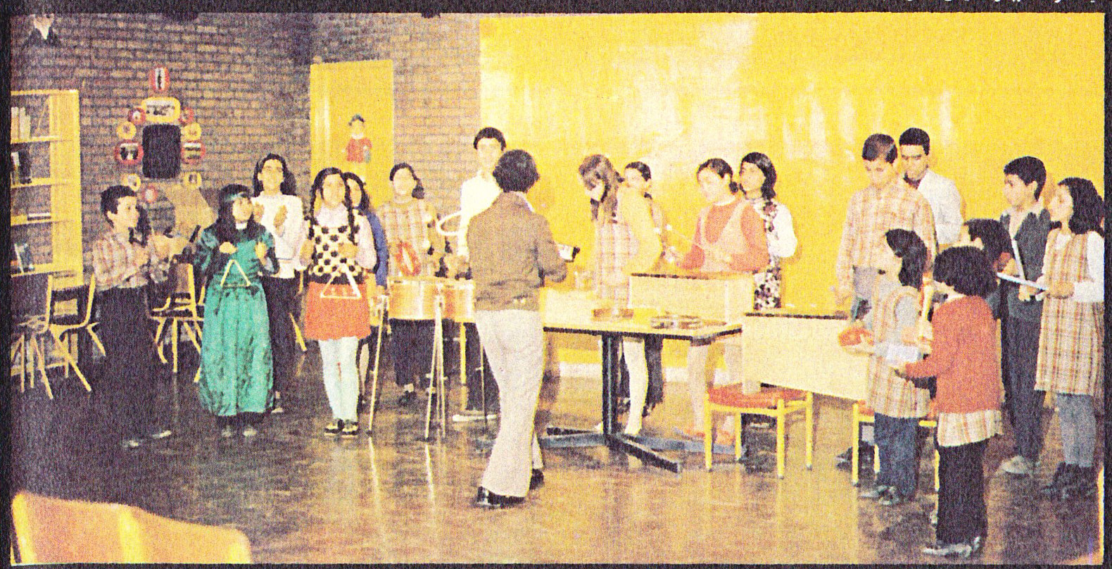 Performing Music program in one of Kanoon's Libraries